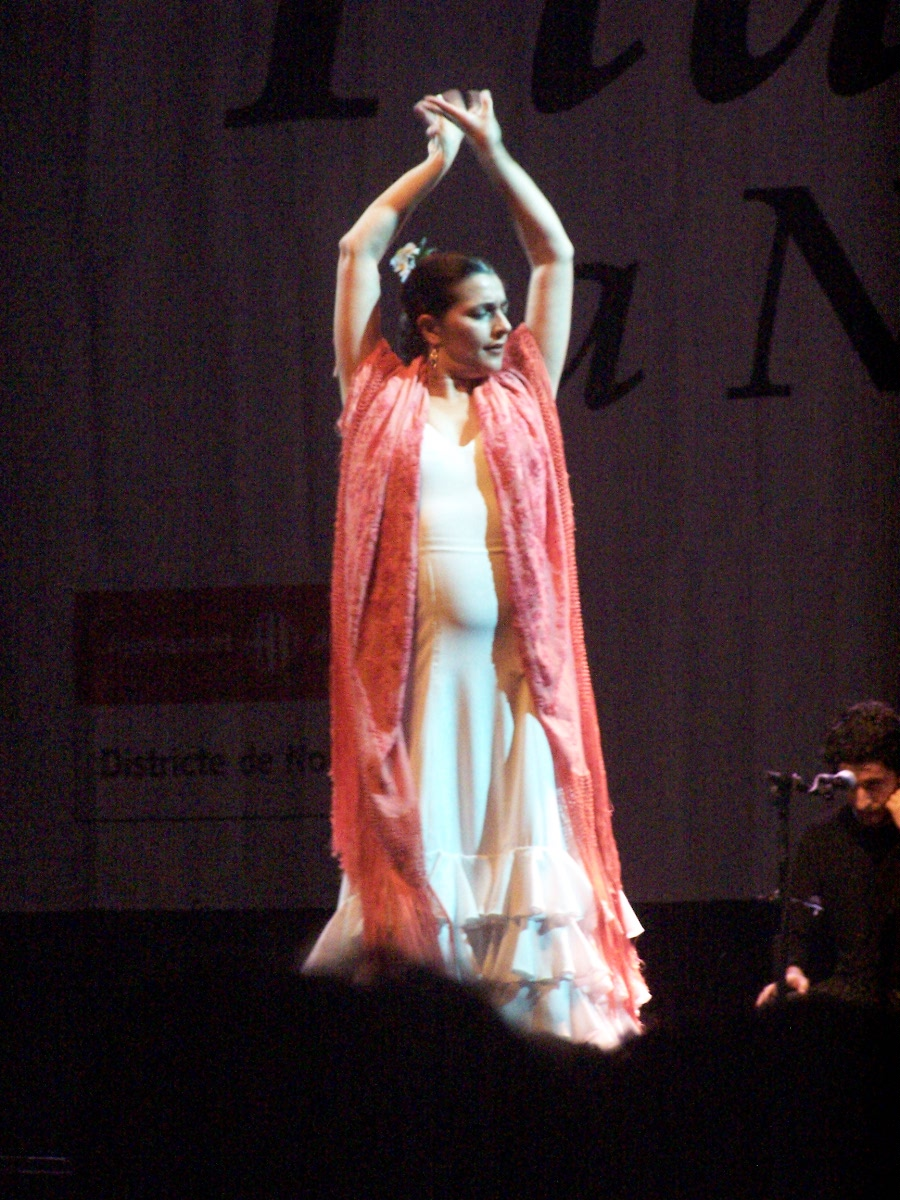 Traje de flamenca, a type of Spanish clothing